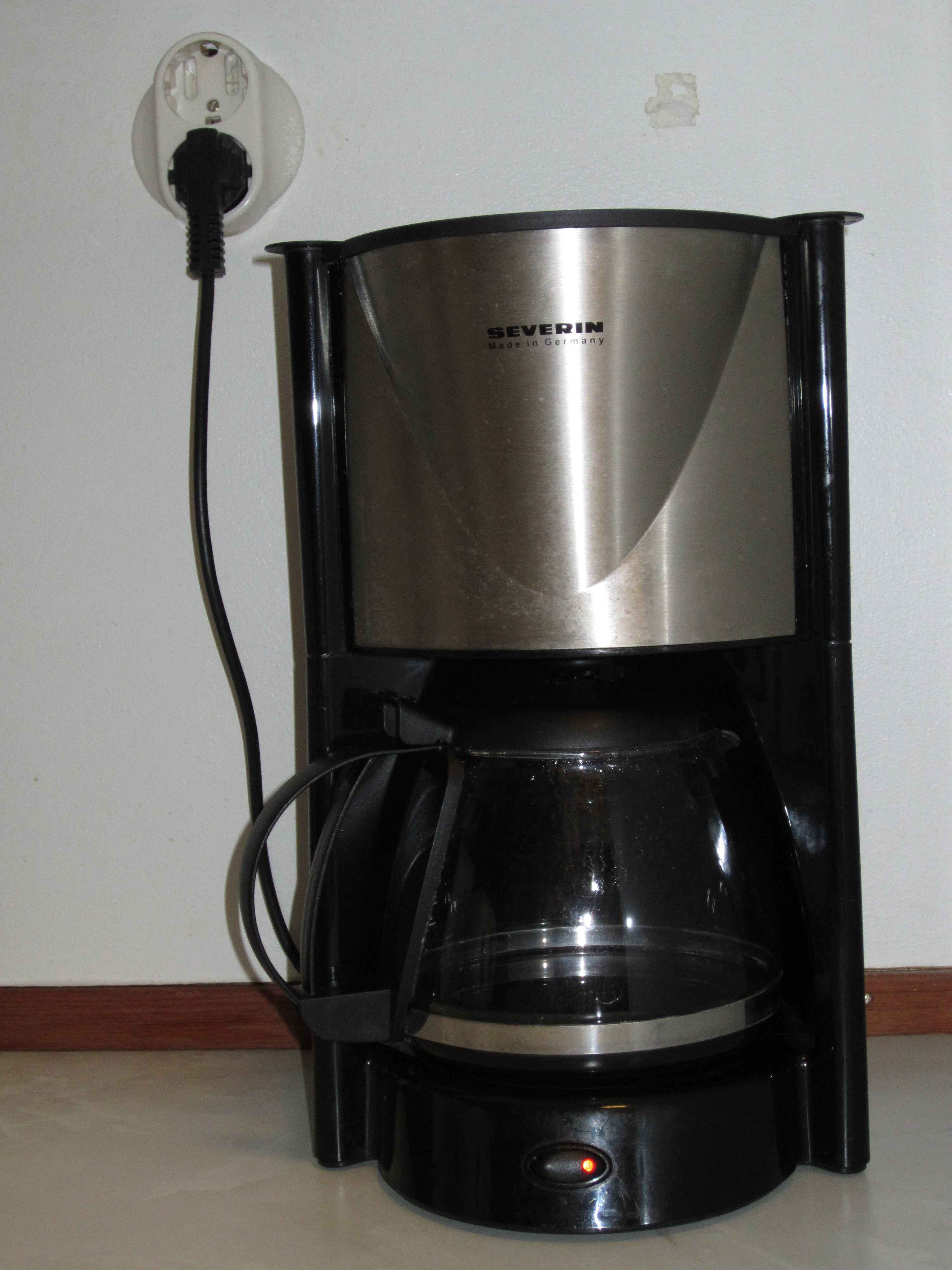 Coffeemaker from German manufacturer Severin.